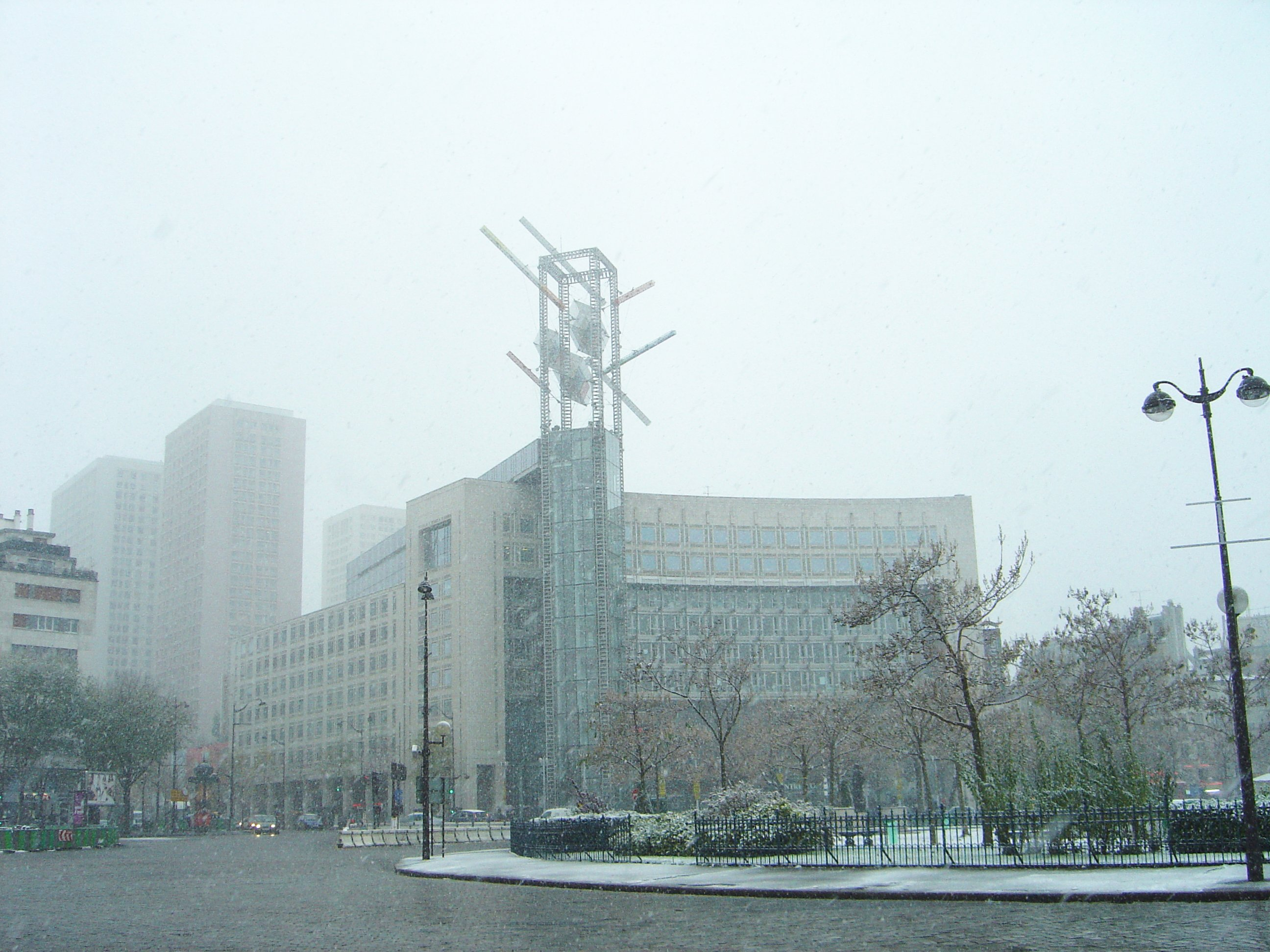 Snow in Paris (Place d'Italie) on November 26, 2005